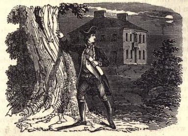 "Wadsworth concealing the charter of connecticut in the oak" - 19th century illustration of the Charter Oak legend.